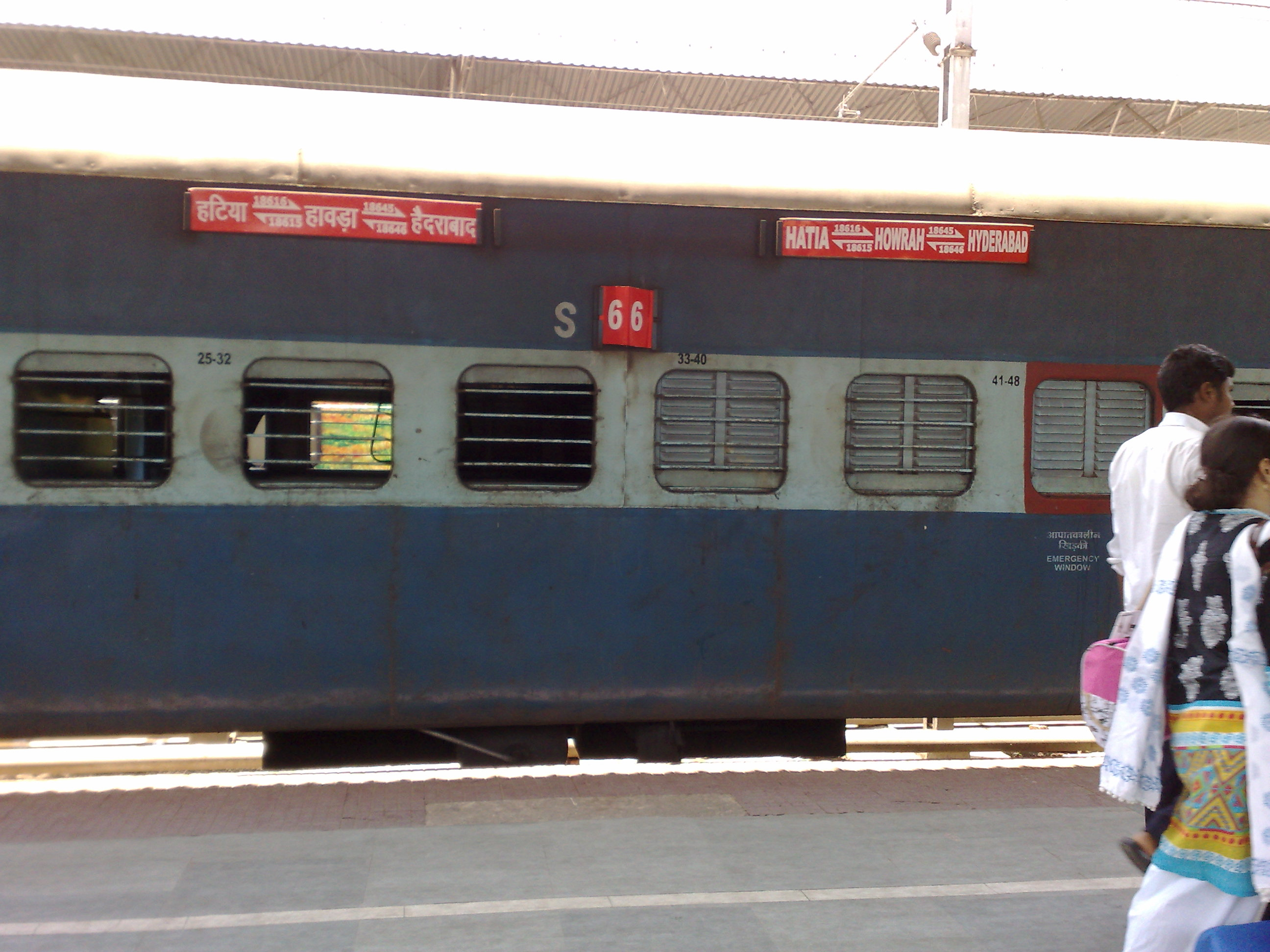 Howrah Hatia Express - Sleeper Class